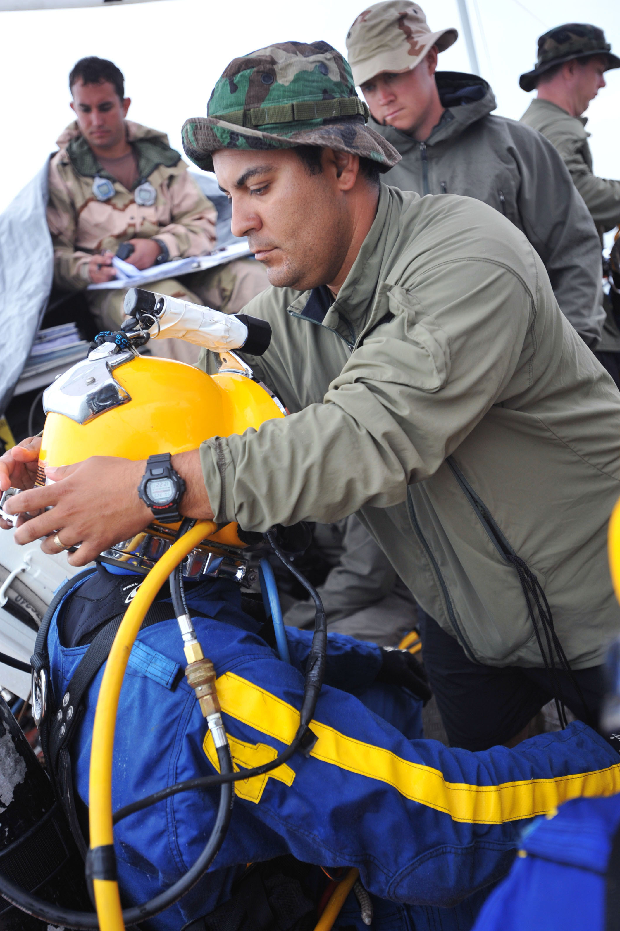 Senior Chief Petty Officer Jorge Guillen, assigned to Mobile Diving and Salvage Unit 2, secures a diver's underwater breathing apparatus before a dive into Africa's Lake Victoria. The dive is part of the Combined Joint Task Force-Horn of Africa mission to search for and possibly recover wreckage from an Ilyushin 76 cargo plane that crashed into the lake on March 9.